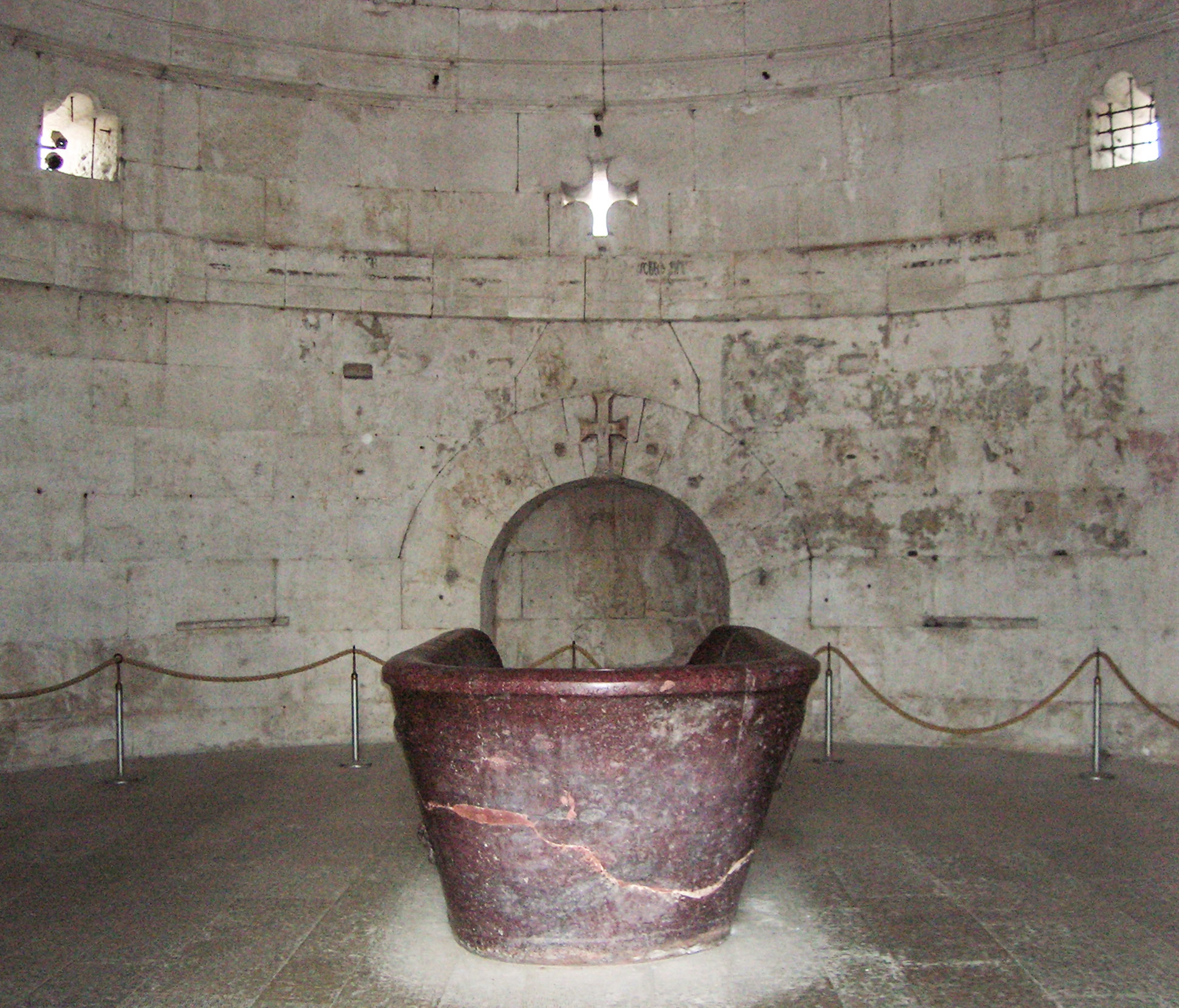 The porphyry labrum (vessel or basin with an overhanging lip), possibily from a Roman thermal building, which is said to have been reused in 526 AD as a sarcophagus for king Theodoric in Ravenna, Italy. The manufact was subsequently reused after 540 AD by the new rulers, the Byzantines, in the facade of the so-called "Palace of Theodoric" in Ravenna, whence it was moved in 1913 to the Mausoleum of Theoderic in Ravenna, where it stands today.